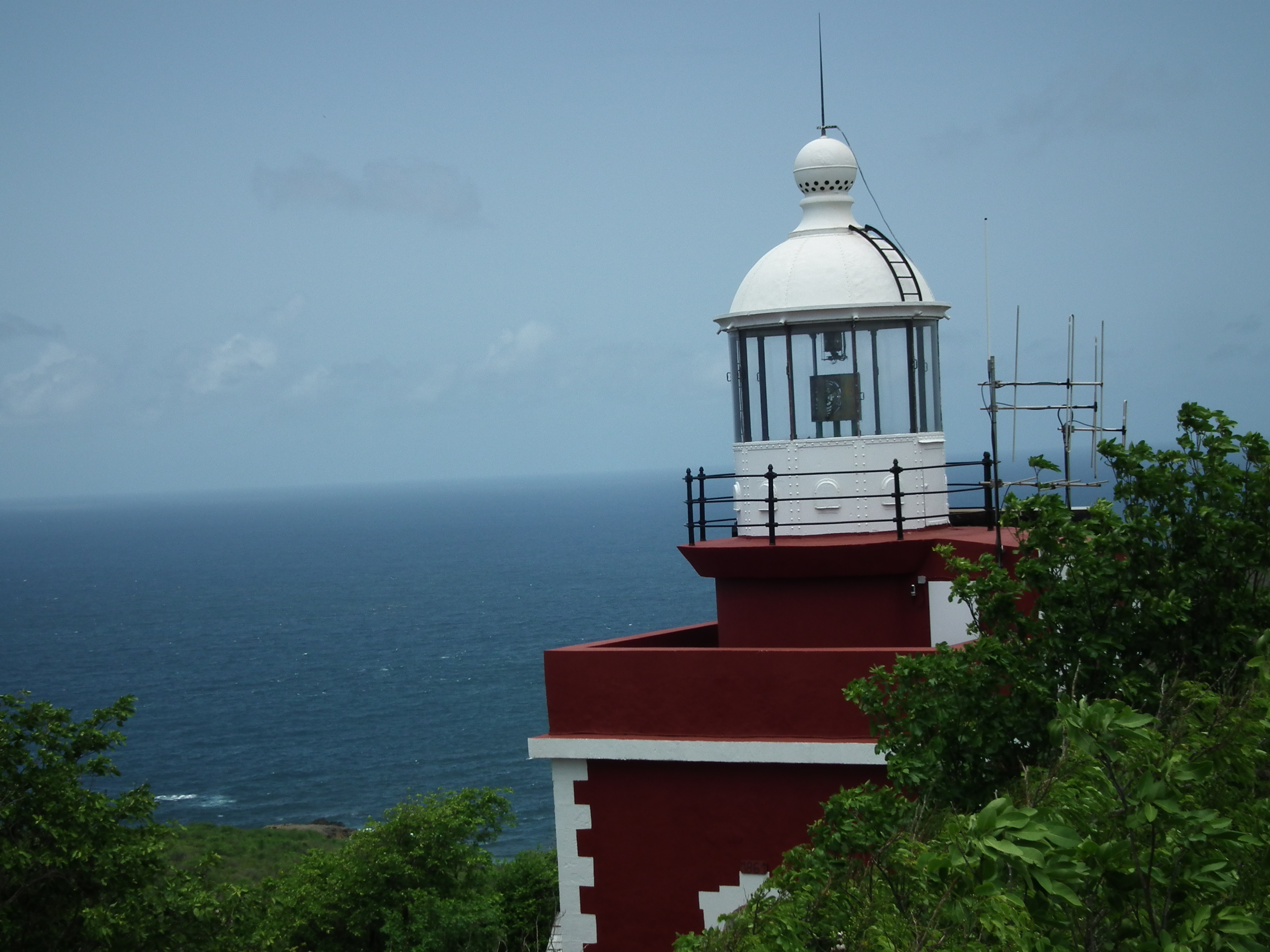 Lighthouse on the peninsula of Caravelle, Martinique, France